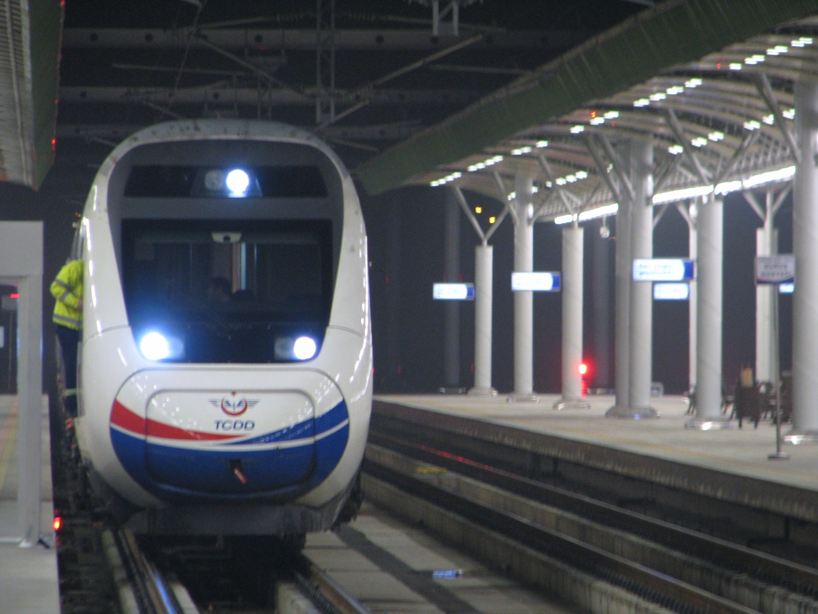 TCDD HT65000 at Konya Gar